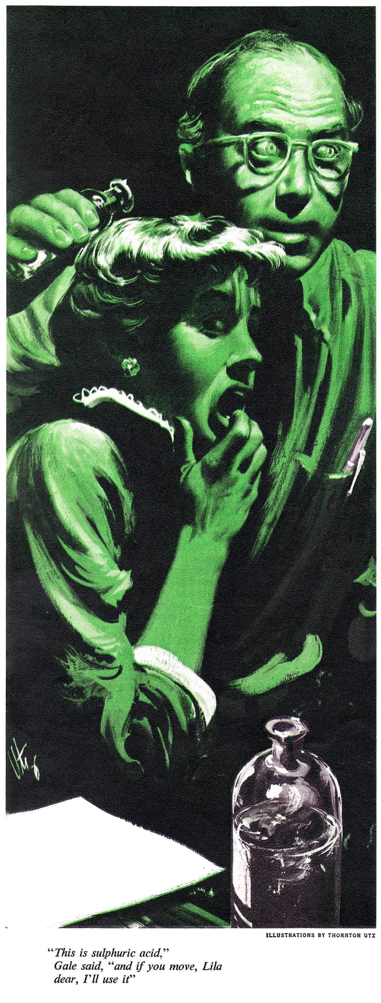 Illustration from The American Magazine printing of "This Won't Kill You", a Nero Wolfe short story by Rex Stout that first appeared under the title "This Will Kill You"